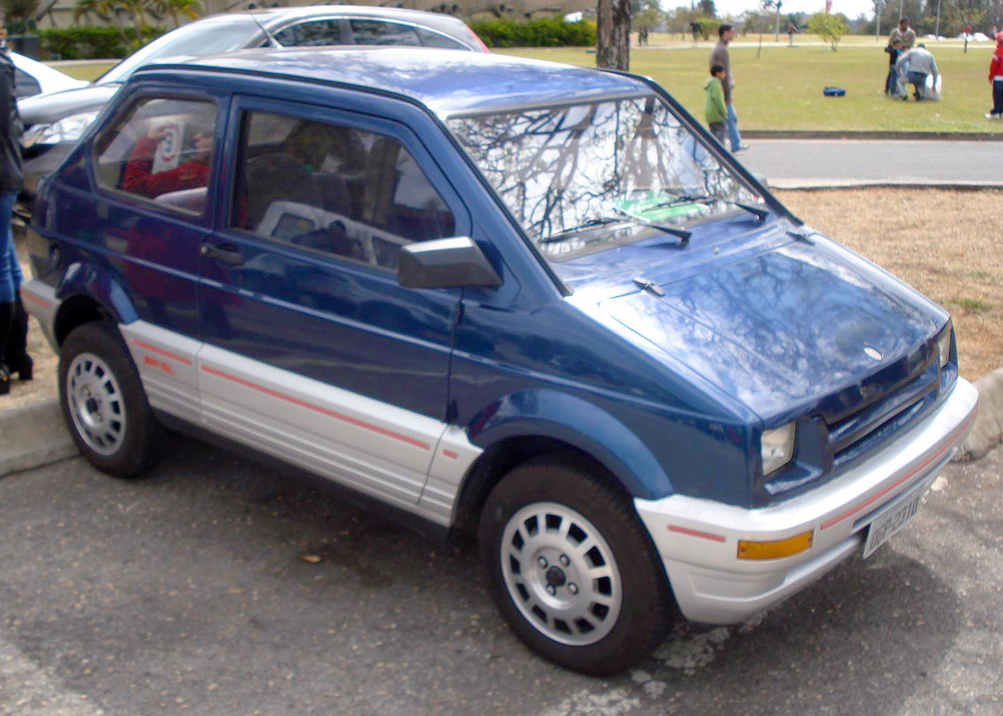 Gurgel Supermini (a development of the earlier BR800) at a Gurgel meet in Sorocaba, Brazil.